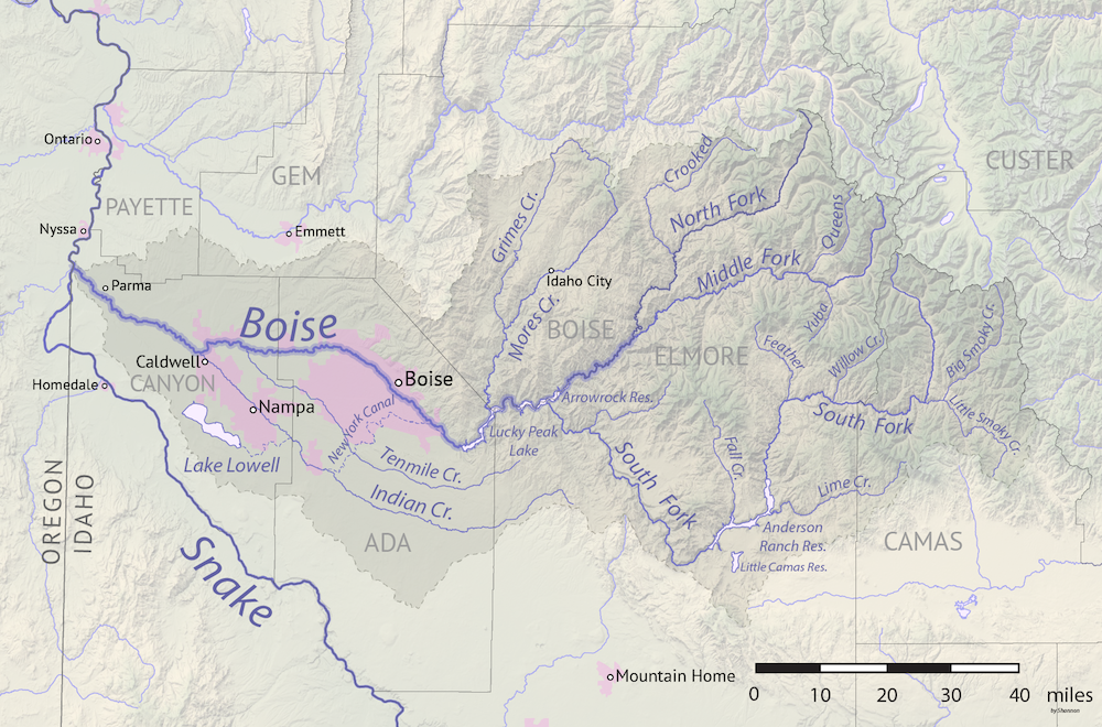 Map of the Boise River drainage basin in western Idaho, created using USGS National Map and NASA SRTM data.